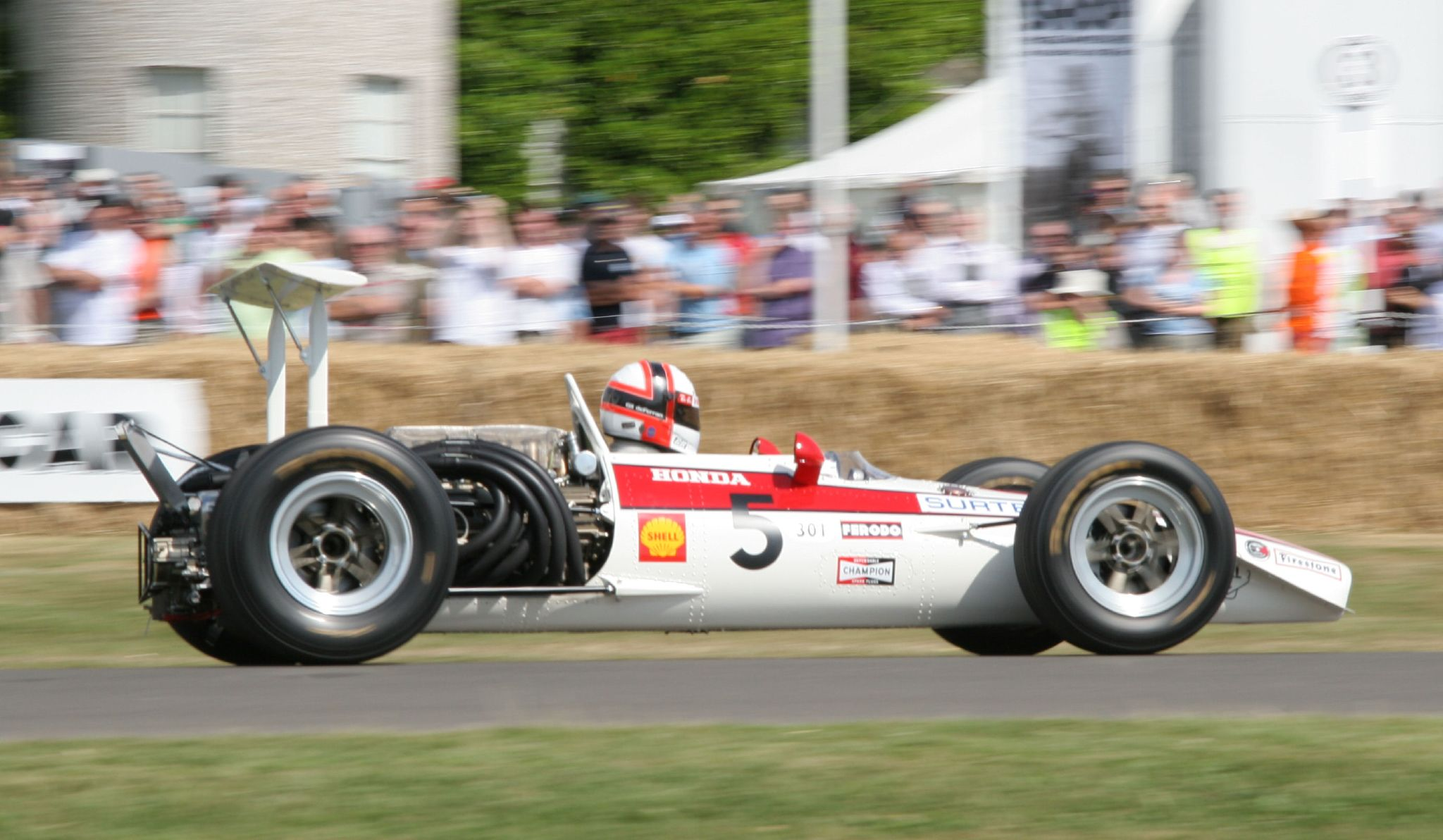 1968 Honda RA 301 Formula One Car at the 2006 Goodwood Festival of Speed